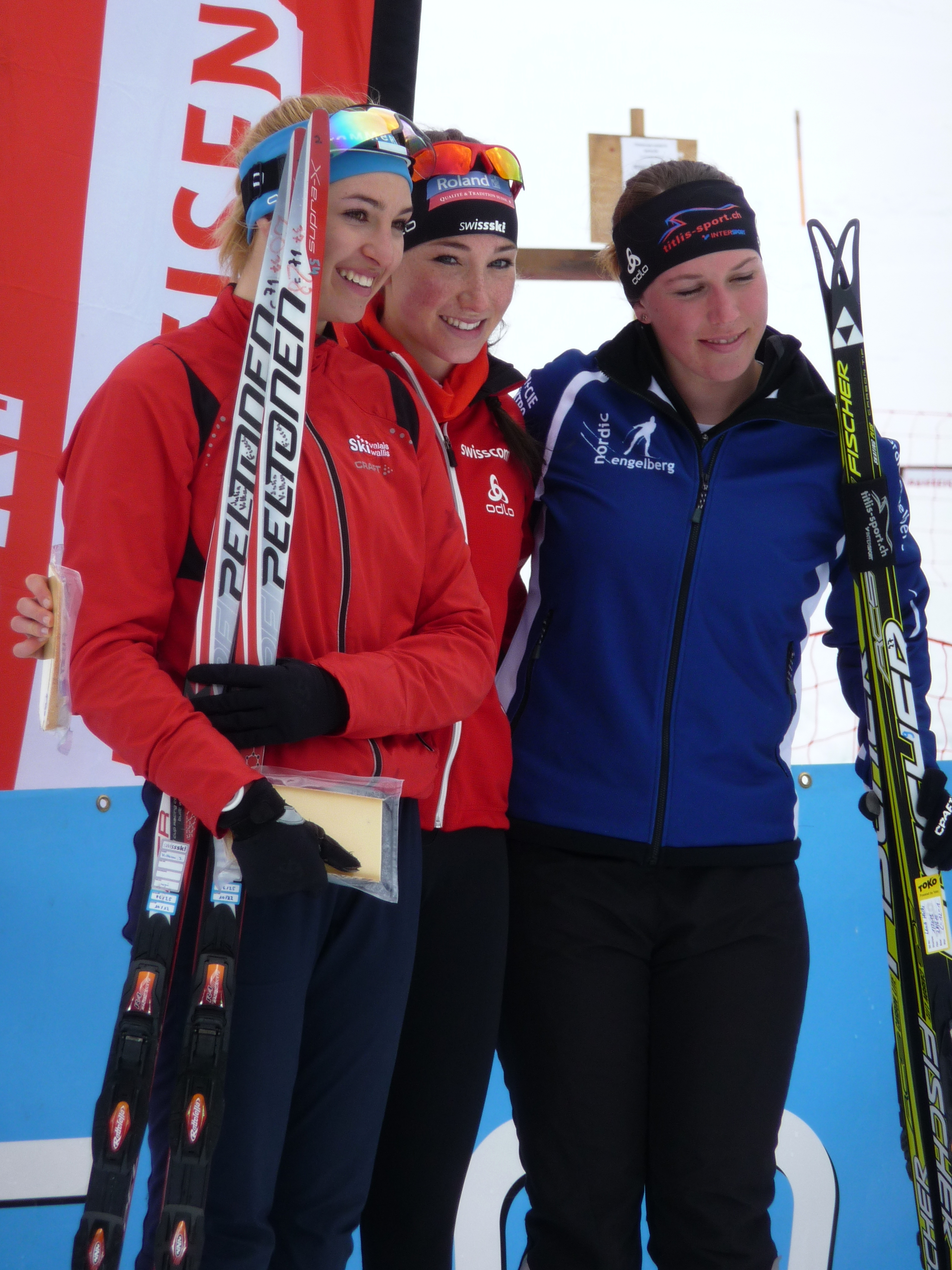 Swiss biathletes Julia Volken, Aita Gasparin and Lena Häcki at National Championships in Biathlon 2013 (Podium Sprint Race U19) in La Lécherette, Switzerland